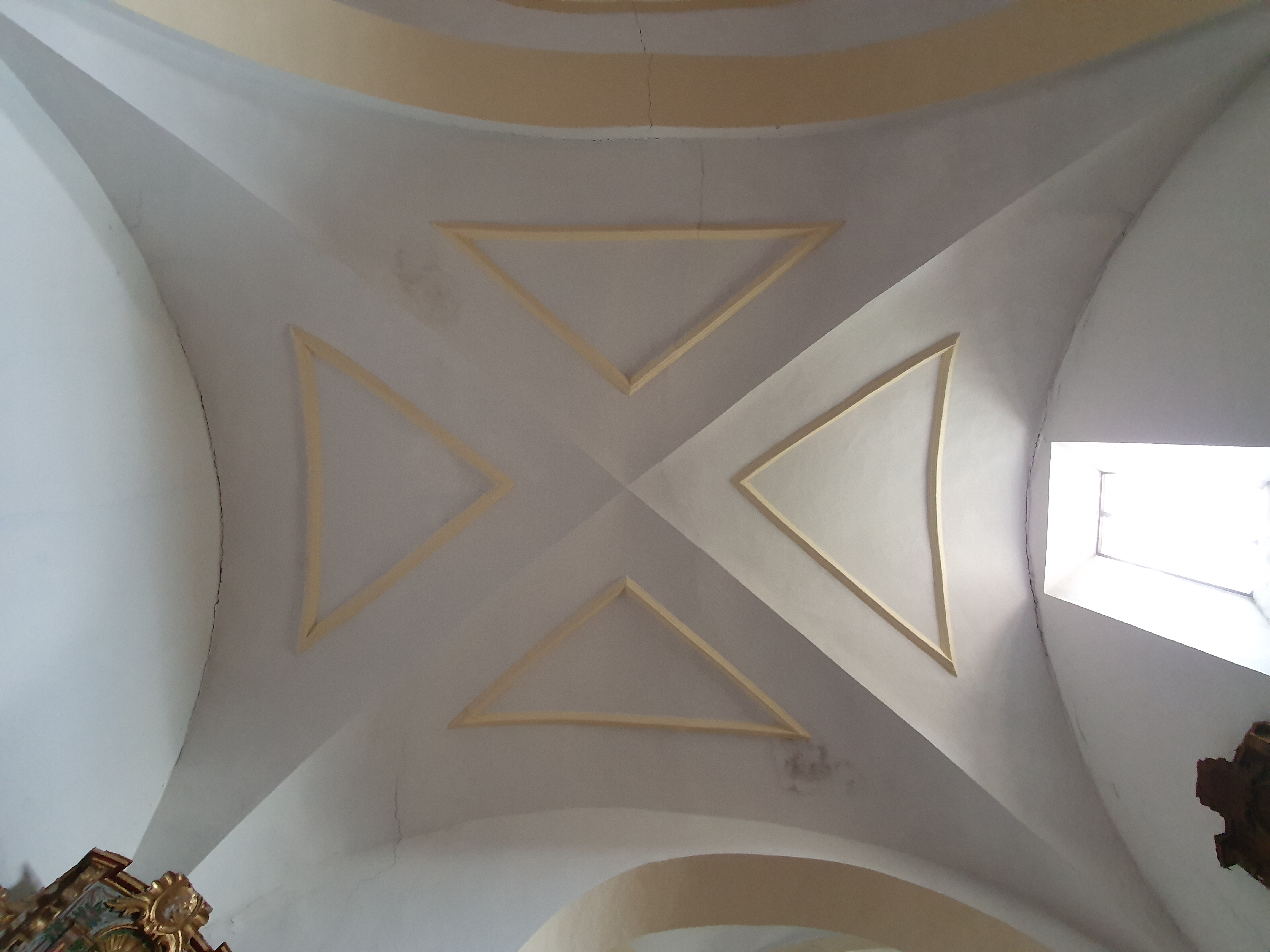 Groined vault in the church of La Asunción in Villamelendro.